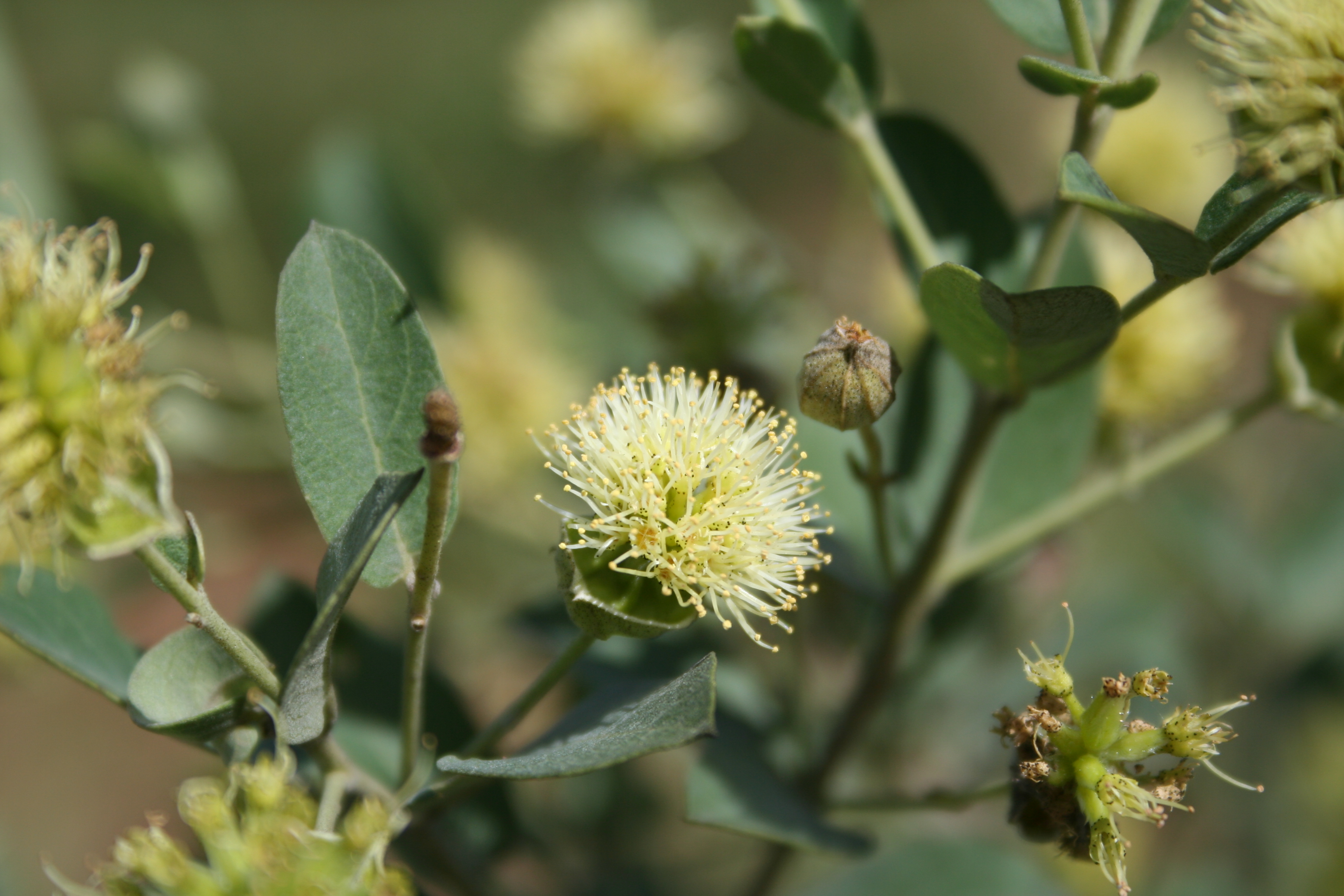 Guiera senegalensis, inflorescence and leaves, SW Burkina Faso